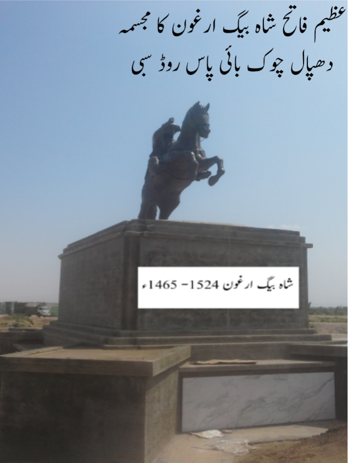 Shah Beg Arghun 1465 - 1524 A.D.